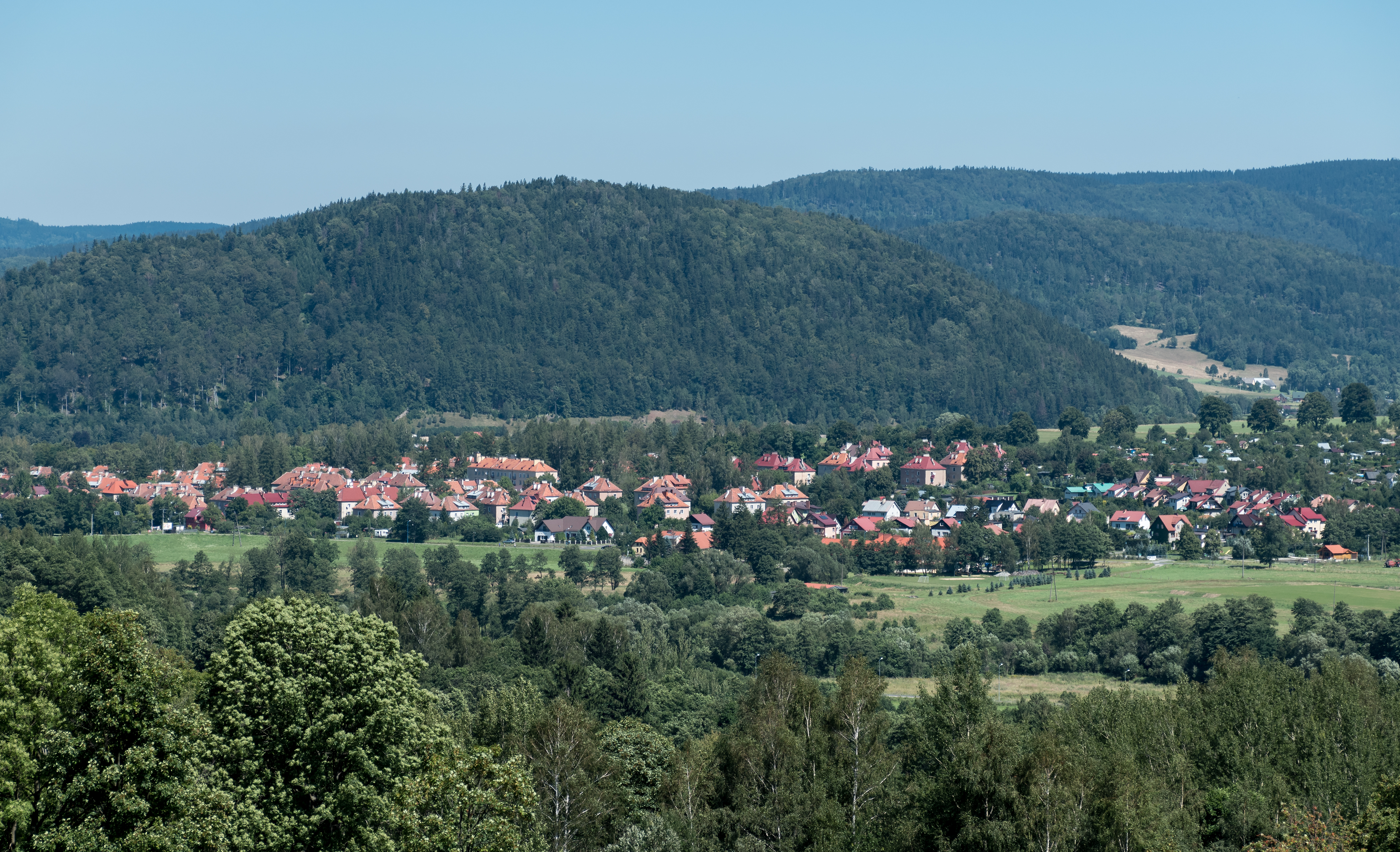 Stronie Śląskie, Morawka district